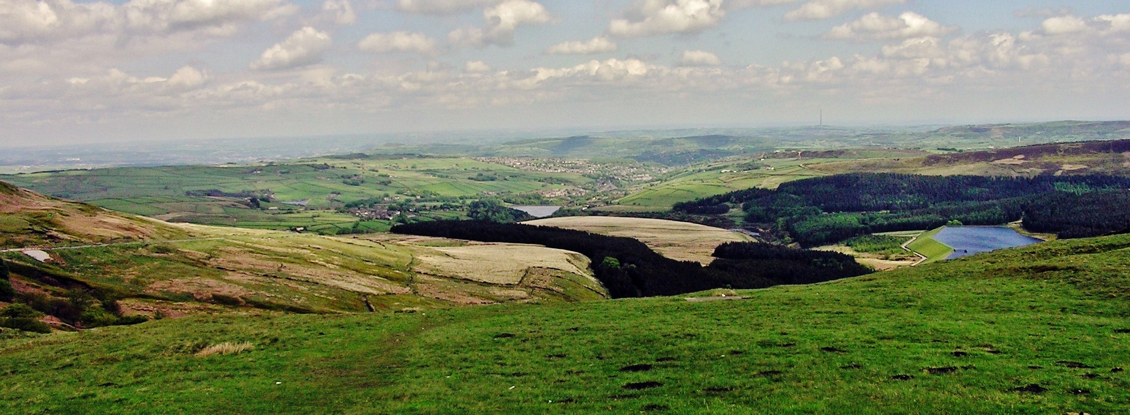 View from Holme Moss north up the Holme Valley over Holmfirth, near Huddersfield in West Yorkshire, England. The village of Holme is shown to the left of the Brownhill reservoir, with Yateholme reservoir shown further right and on the horizon is the Emley Moor Television Transmitter.